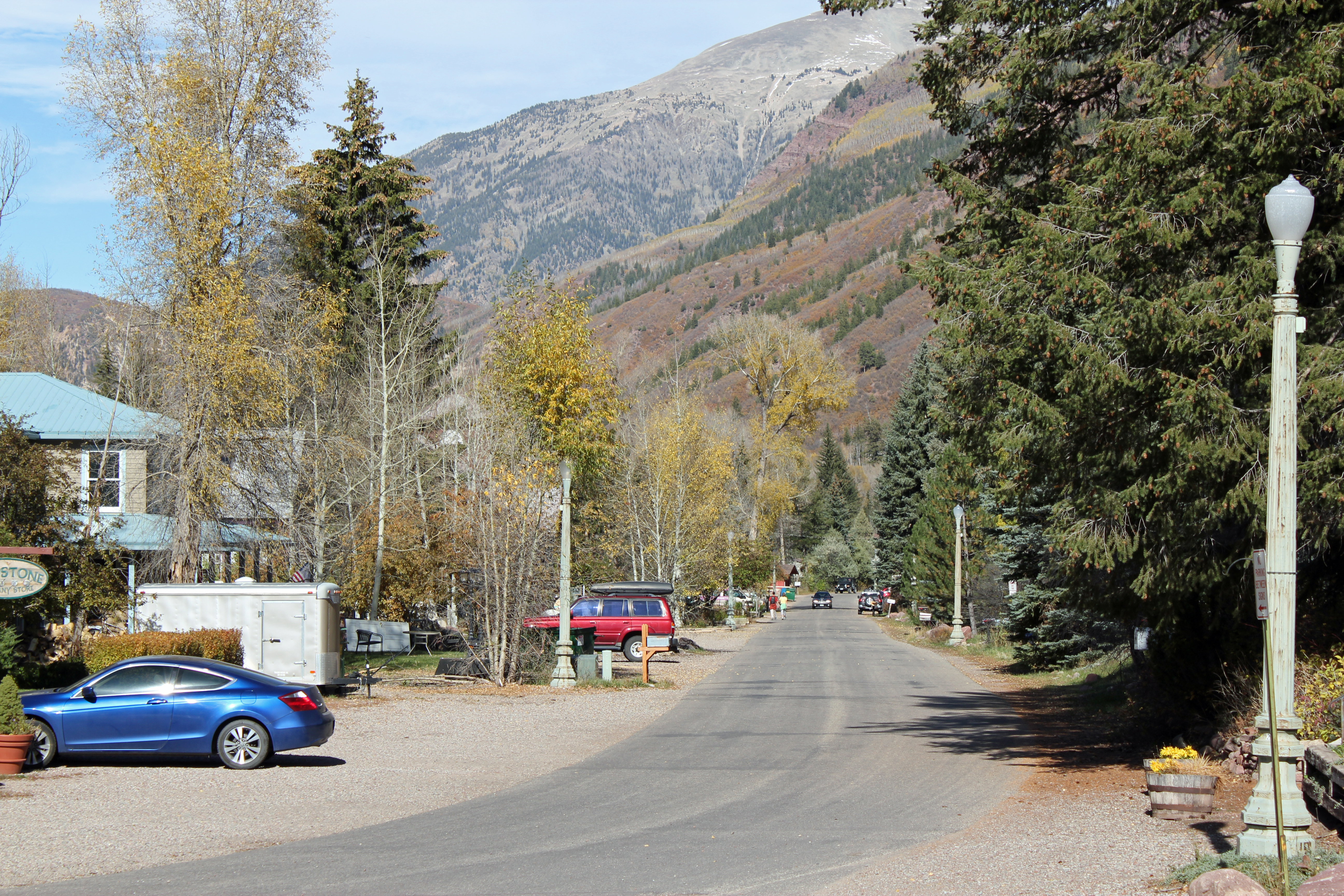 The Redstone Historic District in Redstone, Colorado. The district is listed on the National Register of Historic Places.